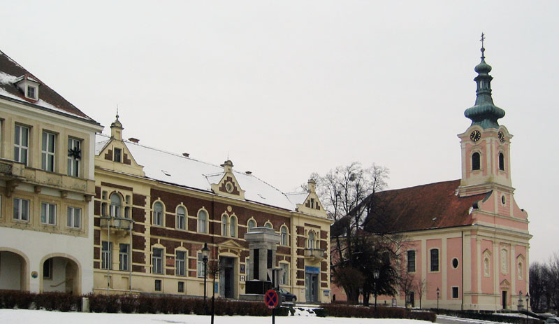 City Hall, Old Sparkasse, Catholic church in Pinkafeld, Burgenland, Austria